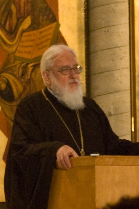 Metropolitan Kallistos Ware, speaking at Ascension Greek Orthodox Cathedral of Oakland, California, on Saturday, February 23d, 2008.